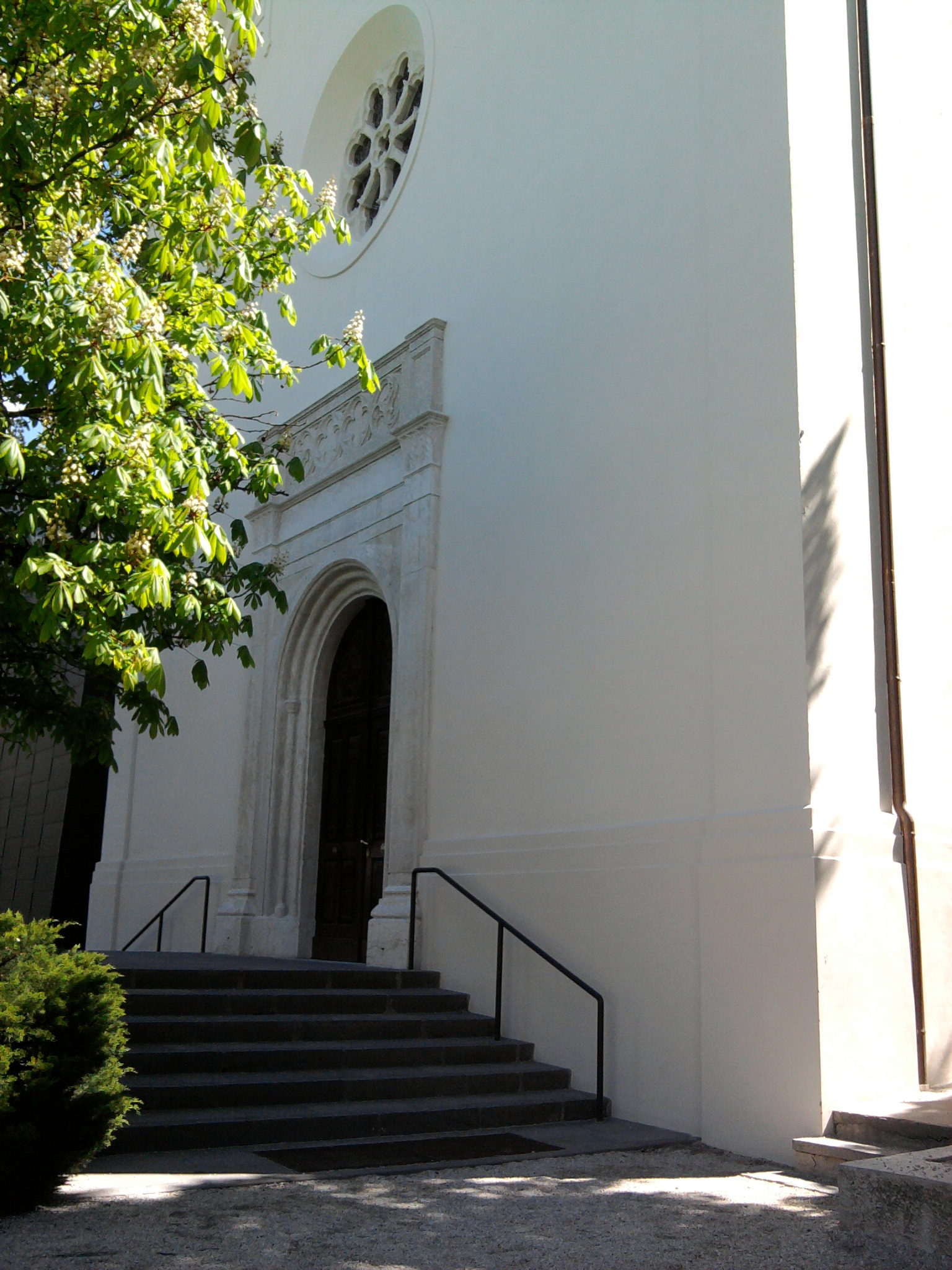 Parish church St. Anthony the Abbot and St. Nicholas in Laives, South Tyrol.